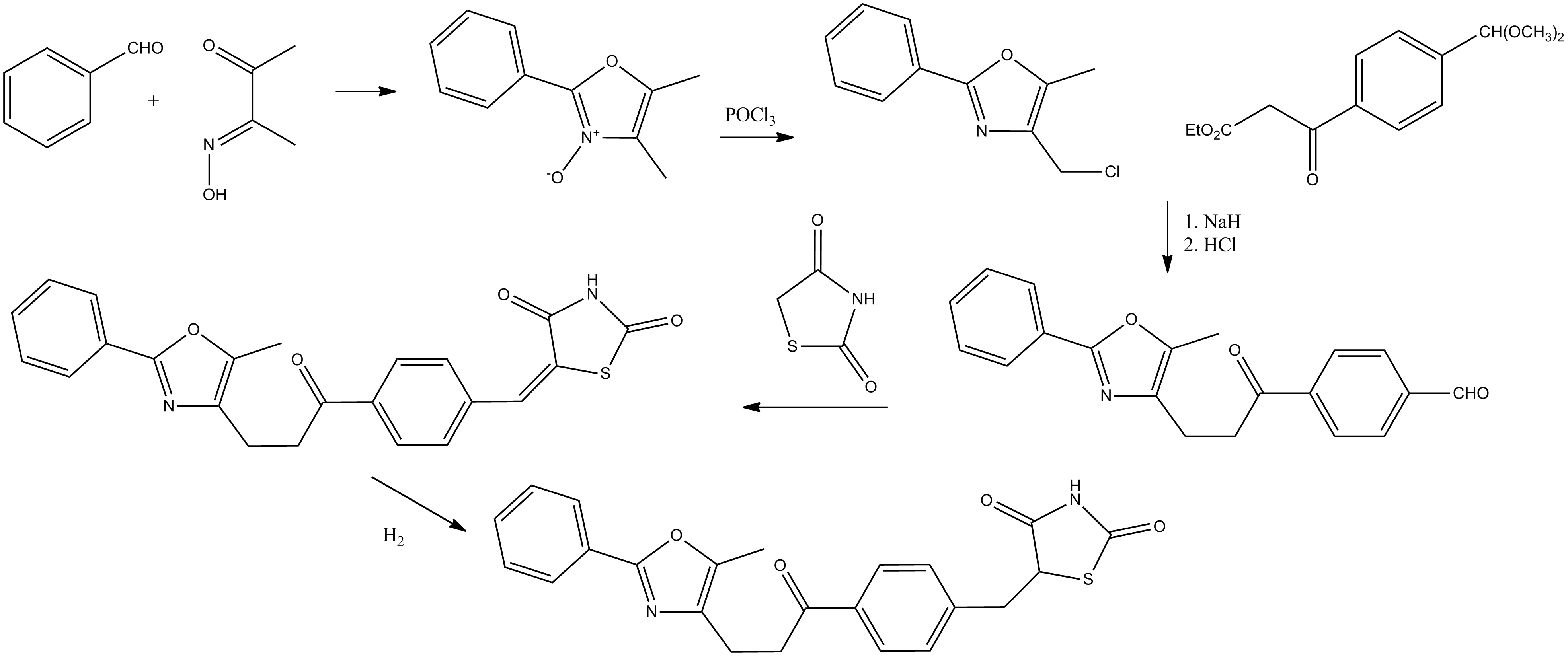 Hulin, B.; Clark,D. A.;Goldstein, S.W.;McDermott, R. E.; Dambek, P. J.; Kappeler,W.H.; Lamphere, C. H.; Lewis, D. M.; Rizzi, J. P.; J. Med. Chem. 1992, 35, 1853.